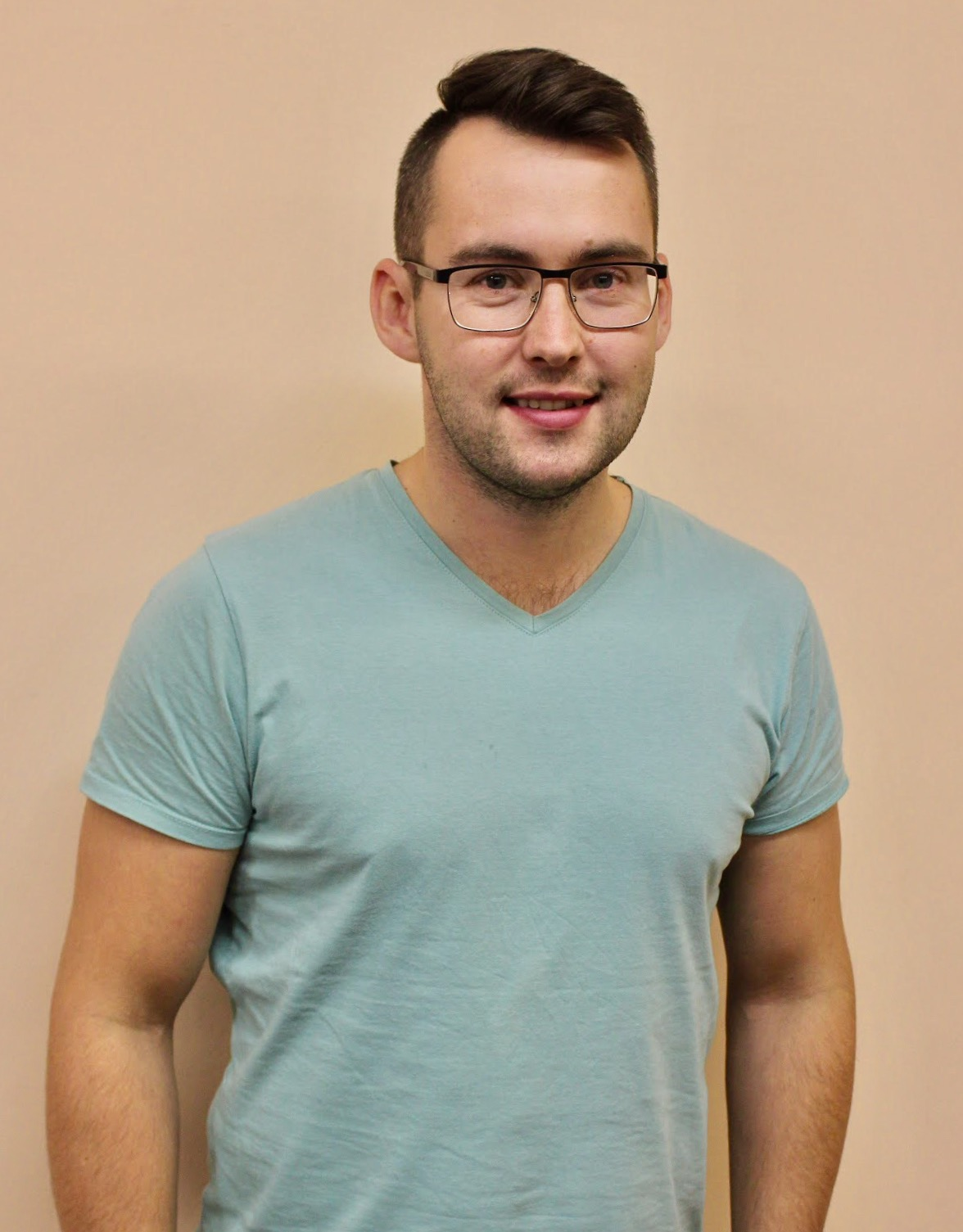 The world champion of table hockey since 2017. Edgars Caics.